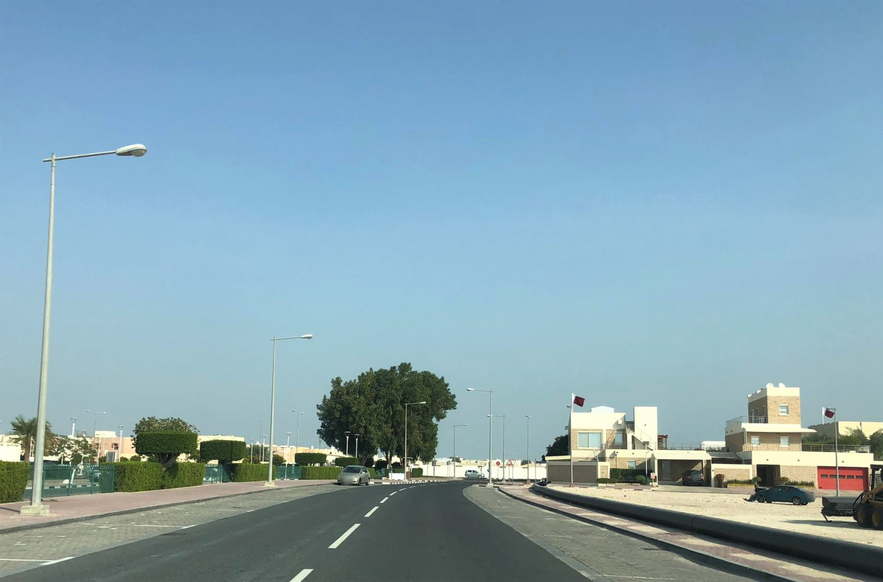 Dahl Al Hamam Park and Qatar Social Cultural Centre for the Blind, view from Al Deebel Street. District of Dahl Al Hamam in Doha, Qatar.